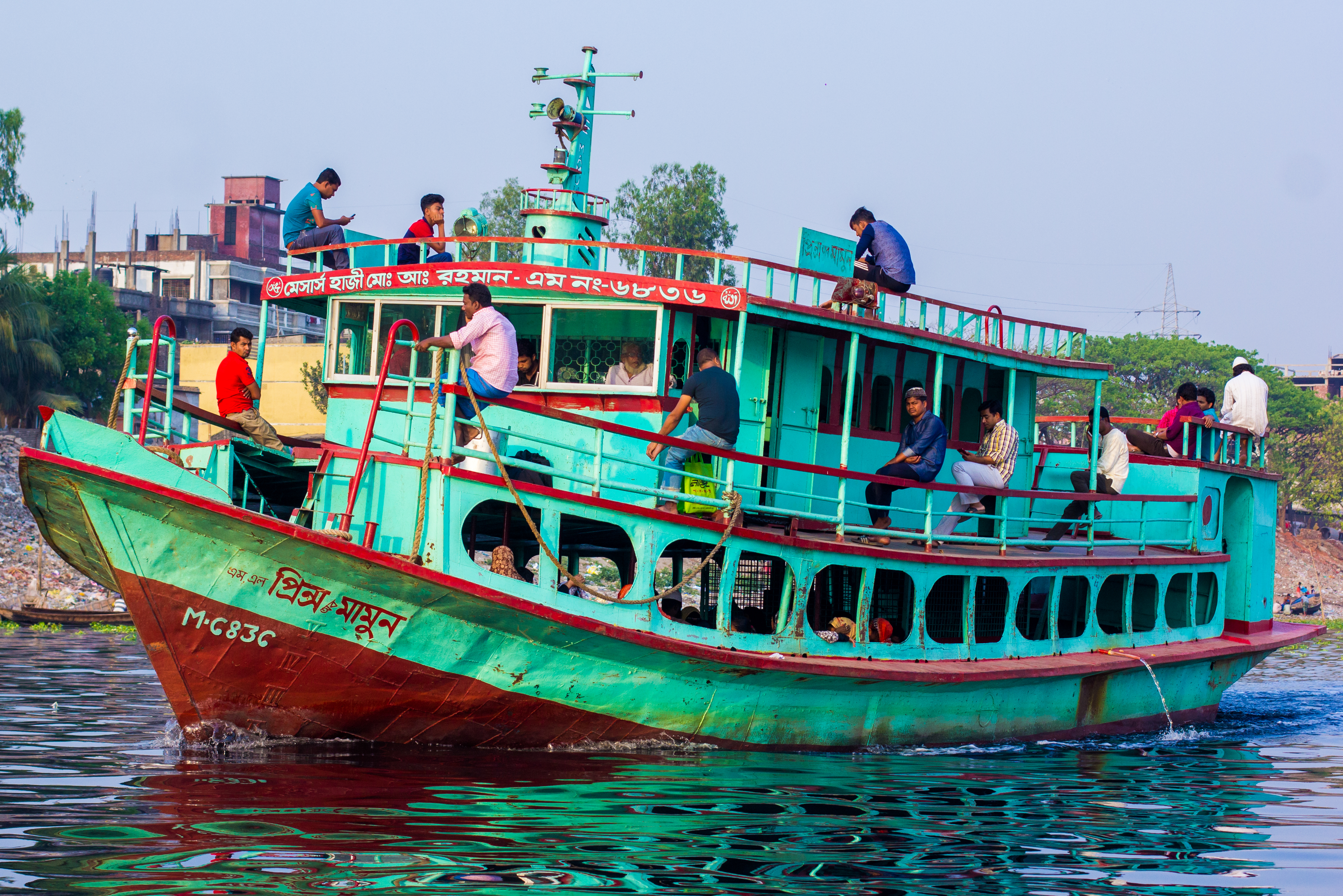 Launch, Sadarghat Port